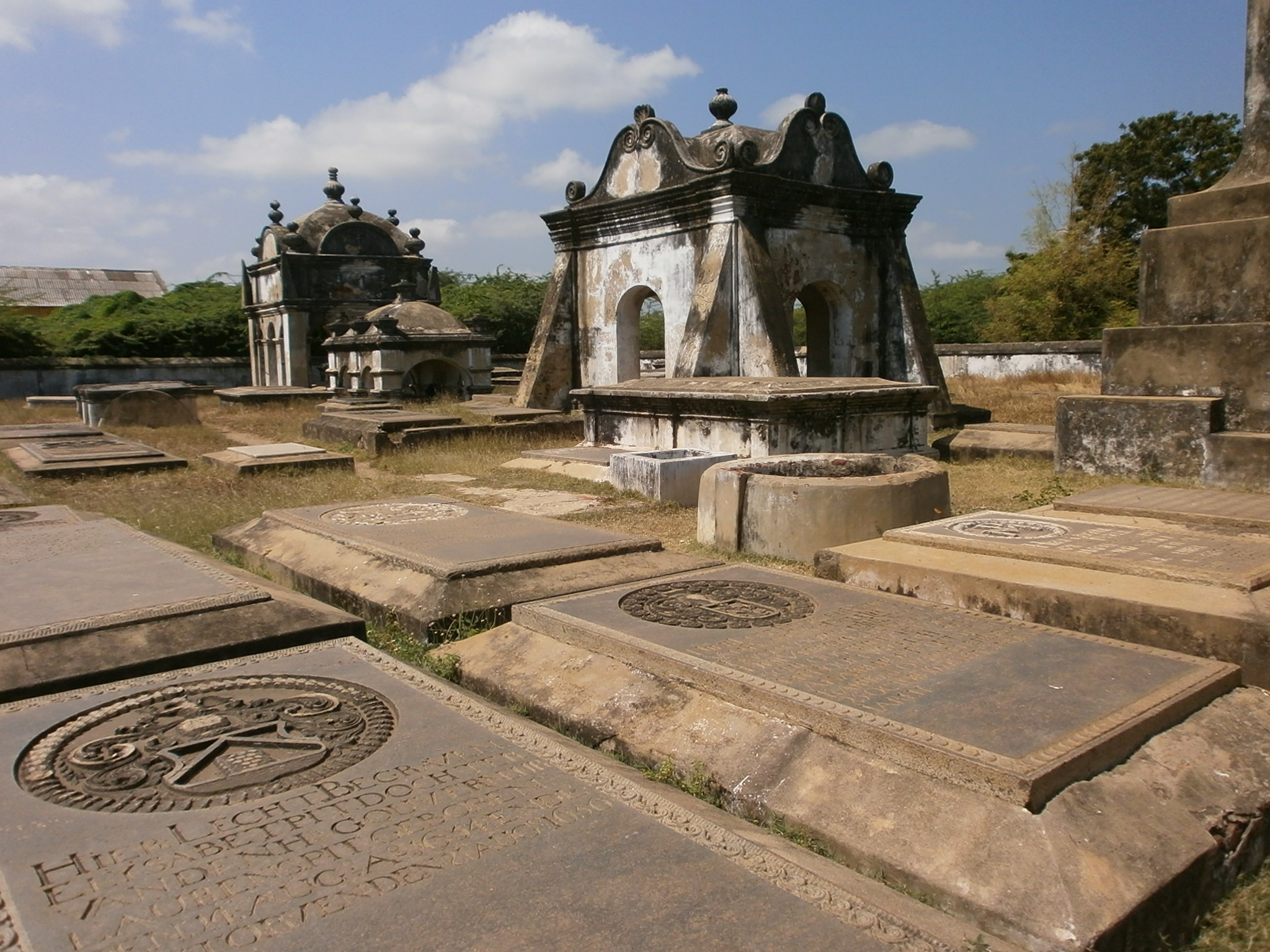 Pulicat-India-Dutch-Cemetery-5